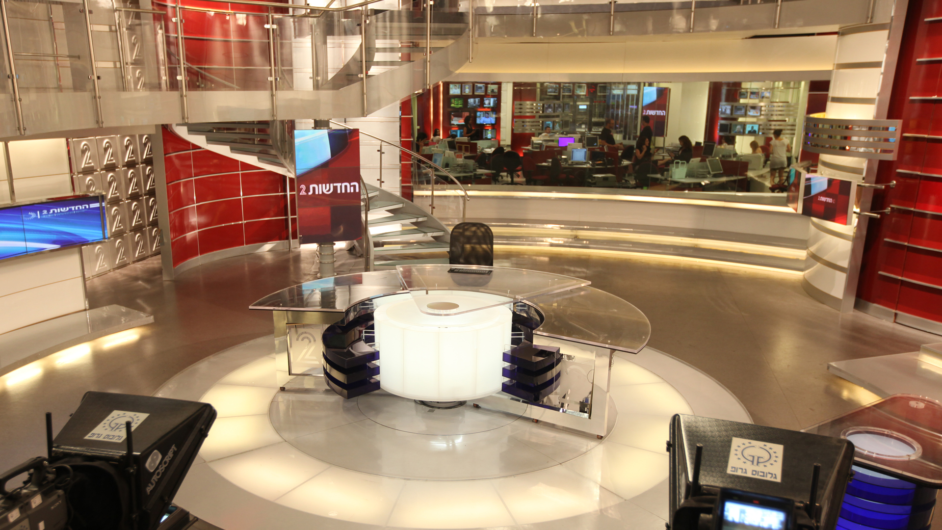 The Israeli News Company (Channel 2) - Main studio